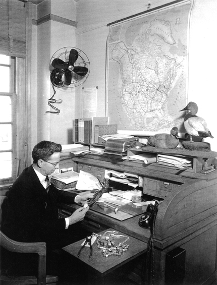 Frederick Charles Lincoln, at his desk. Lincoln was an accomplished biologist, administrator, and writer. From the U.S. National Archives and the U.S. Bird Banding Laboratory.